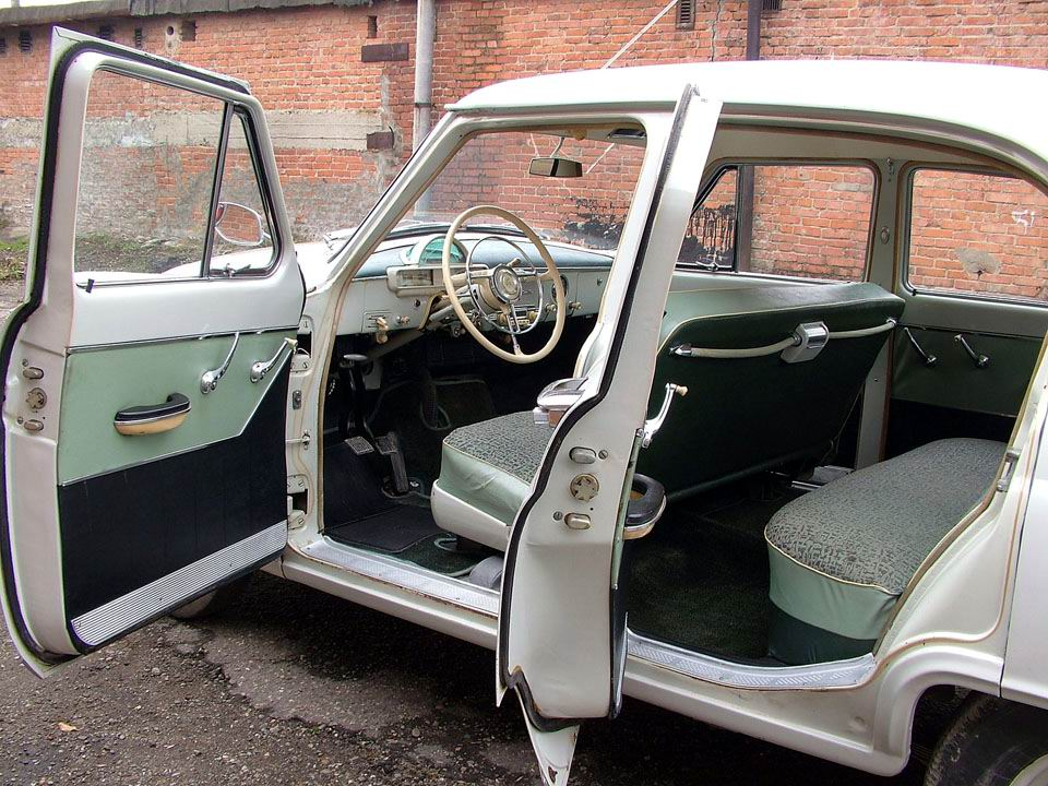 Interior of GAZ-21 Volga (3rd series)